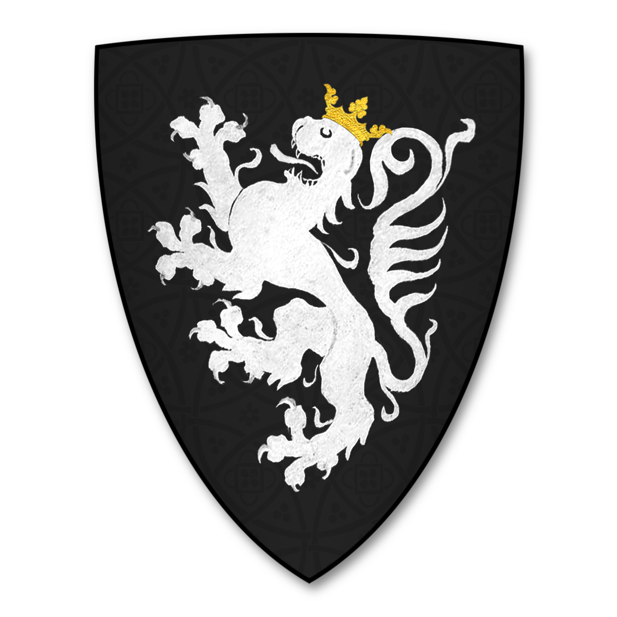 Coat of Arms of John de Segrave, brother of Nicholas, as blazoned in the Caerlaverock Poem (K-016: "son frere Johan") "Cil ot la baniere son pere Au label rouge por son frere Johan, ki li ainsnez estoit, E ki entiere la portoit. O un lÿoun de argent en sable Rampant e de or fin couronné" Arms: Sable a lion rampant argent crowned Or. The translation of the first portion of the stanza translates roughly to mean Nicholas bore the banner of his father with a red label; his brother, John, bore the same as his father, the arms undifferenced.